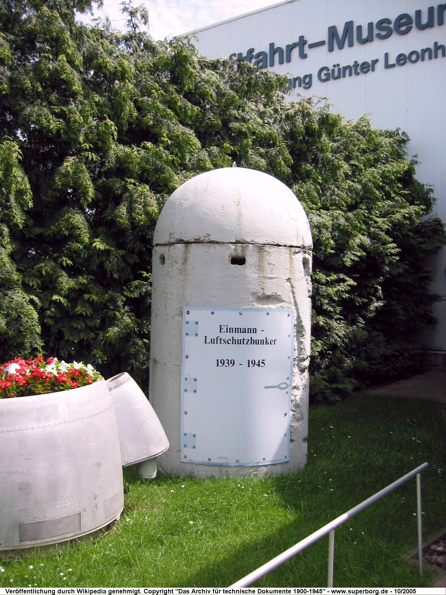 Description: Single Person Air raid shelter (Einmann-Luftschutzbunker) in Germany Photographer: Das Archiv für technische Dokumente 1900-1945 - Licensing: Publication on Wikipedia allow Date: 05.07.2004